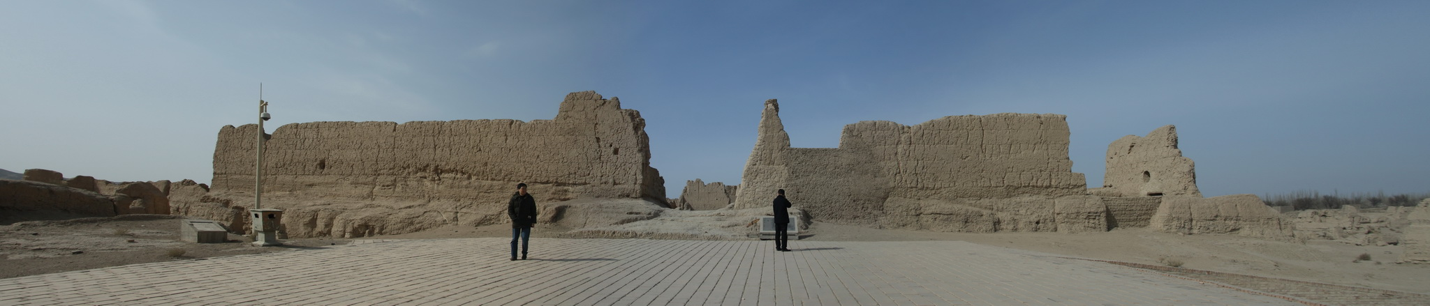 The biggest temple in the jiaohe city.